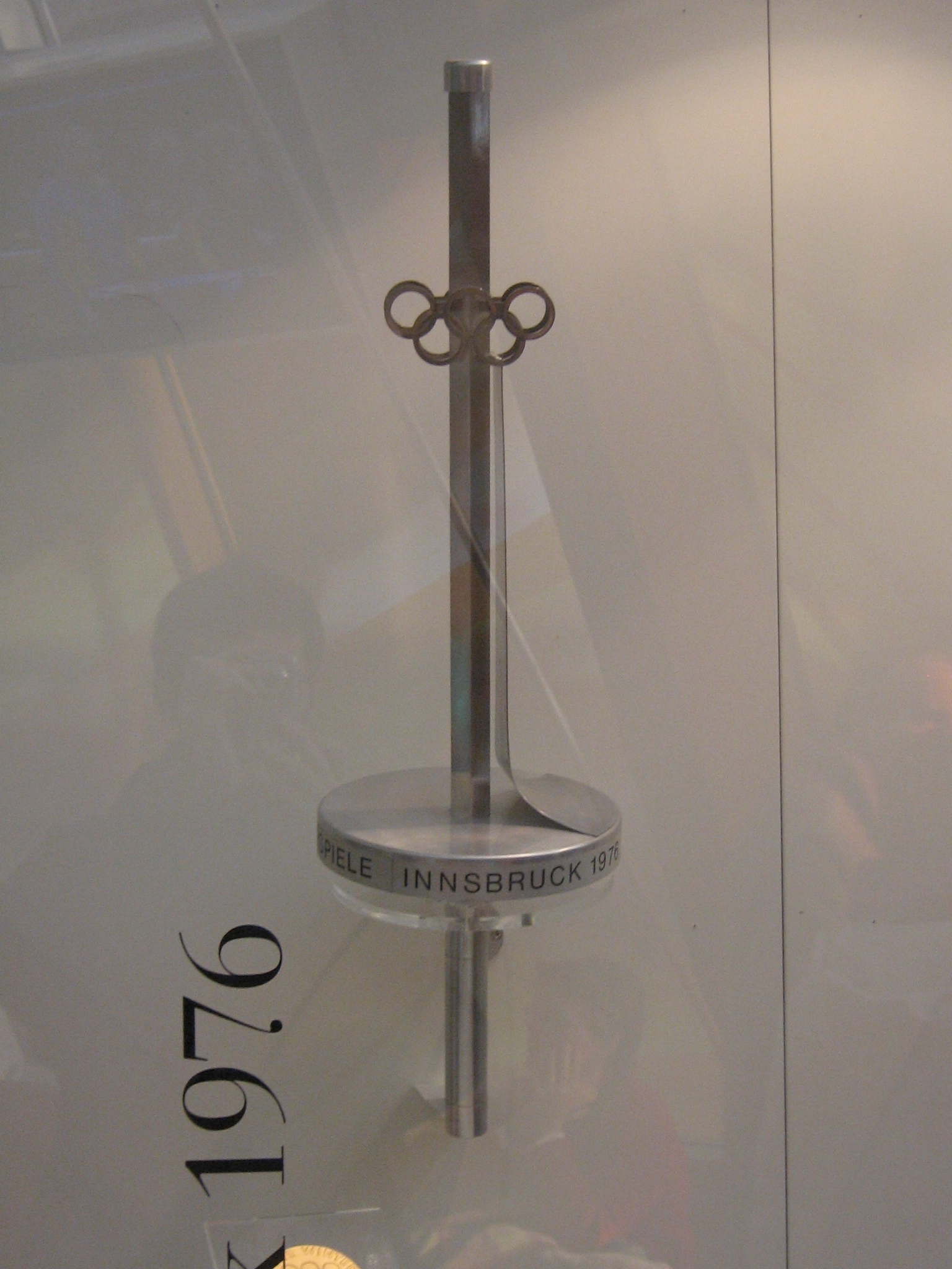 Innsbruck 1976 olympic torch, Olympic museum Lausanne, temporary exhibition in Turin (Atrium Torino)